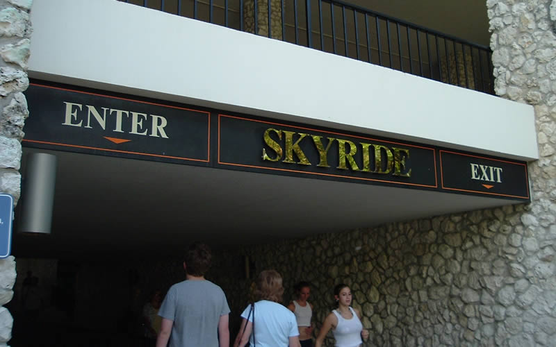 The sign for the Skyride's Crown Colony entrance at Busch Gardens Africa. (The Skyride transfers park guests across the park, with stations at Crown Colony and Stanleyville.)